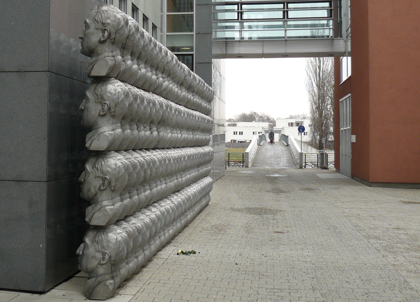 Art in Landhausviertel in Sankt Polten. Hohlkopfwand.